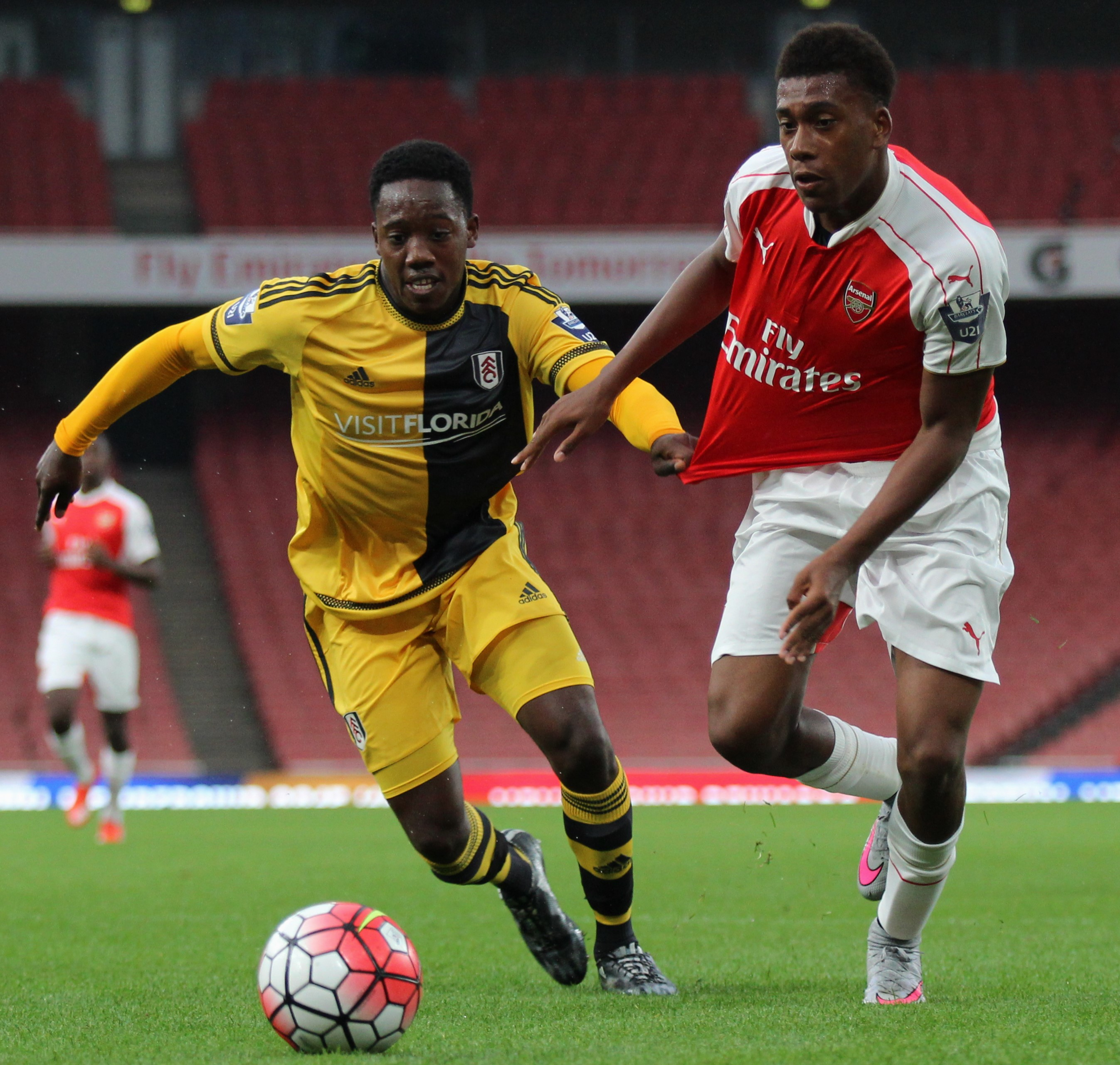 Alex Iwobi of Arsenal U21s is pulled back during the game against Fulham.